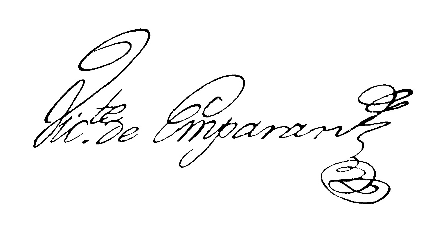 Signature of Captain General of Venezuela, Vicente de Emparan (1747—1820)